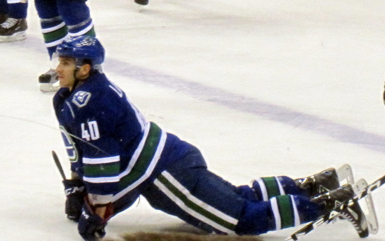 Vancouver Canucks center Maxim Lapierre stretching prior to a game against the San Jose Sharks on January 2, 2012, in Vancouver, BC.